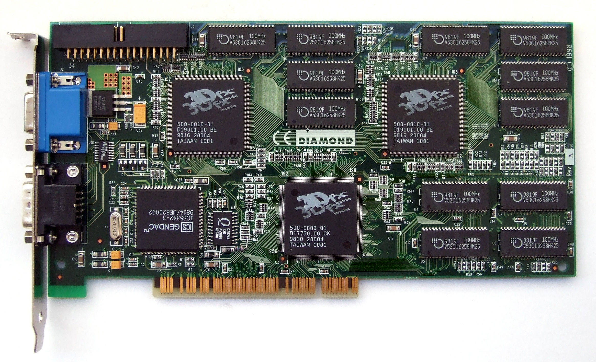 3dfx Voodoo 2 (Diamond Monster 3D II, 12MB)